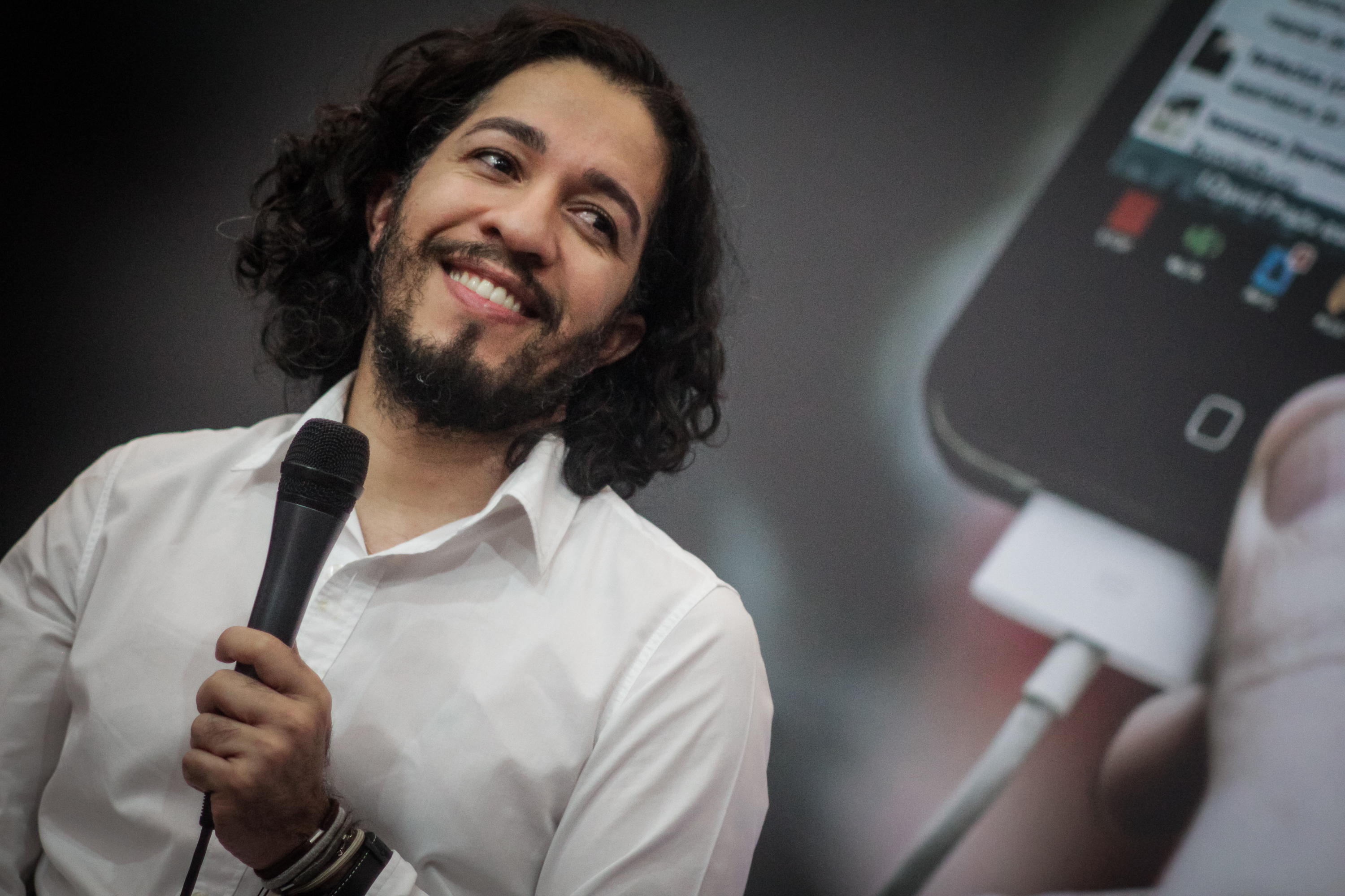 Jean Wyllys in 2015.